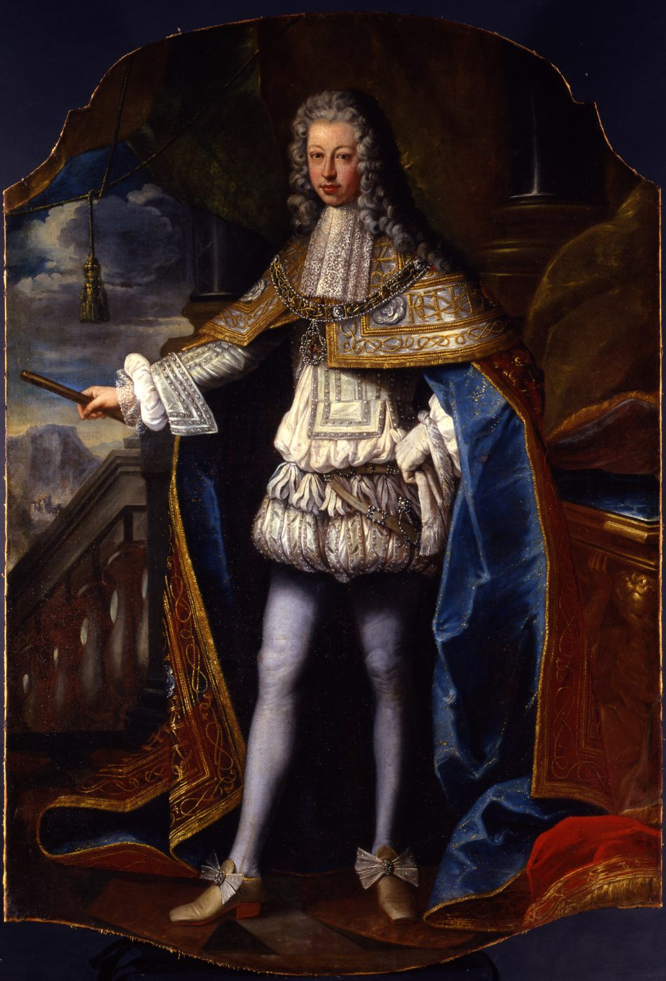 Charles Emmanuel III of Sardinia (1701-1773) as Grand Master of the Order of the Most Holy Annunciation